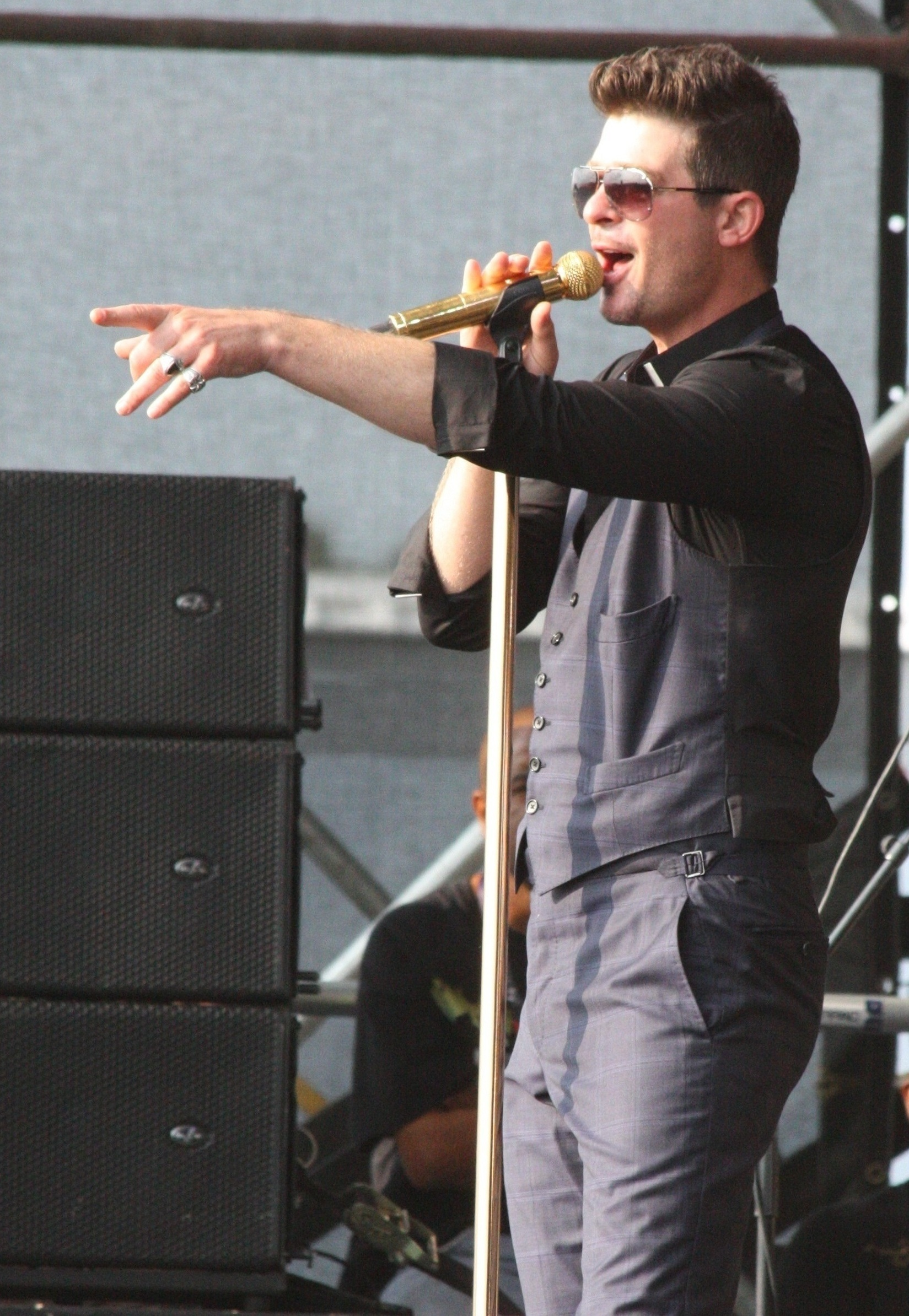 Robin Thicke in 2014